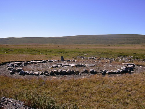 Reconstructed kurgan on the Ukok plateau, Altay Republic